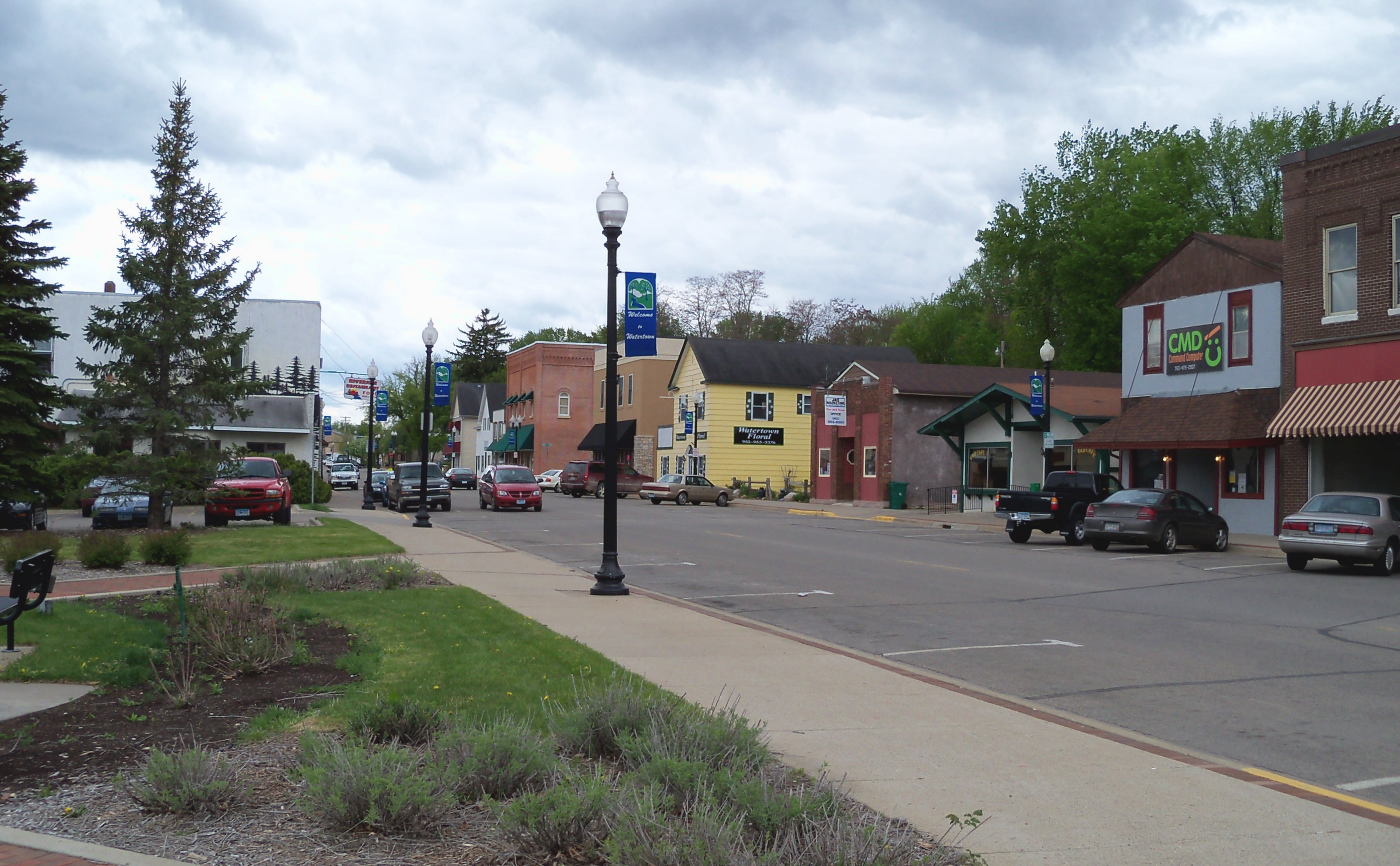 Downtown Watertown, Minnesota, USA.